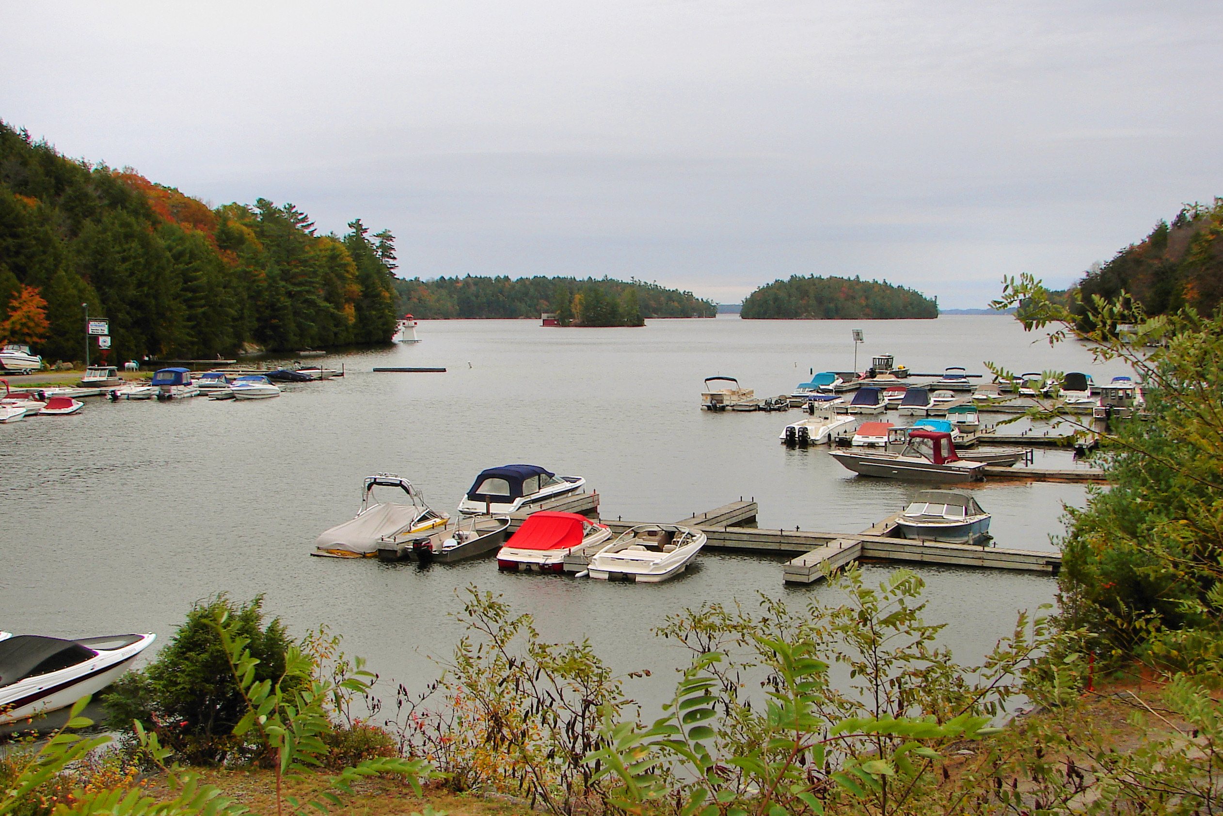 Marina at Gordon Bay (Lake Joseph), Ontario, Canada